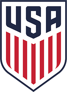 Crest of the United States Soccer Federation, launched in 2016.